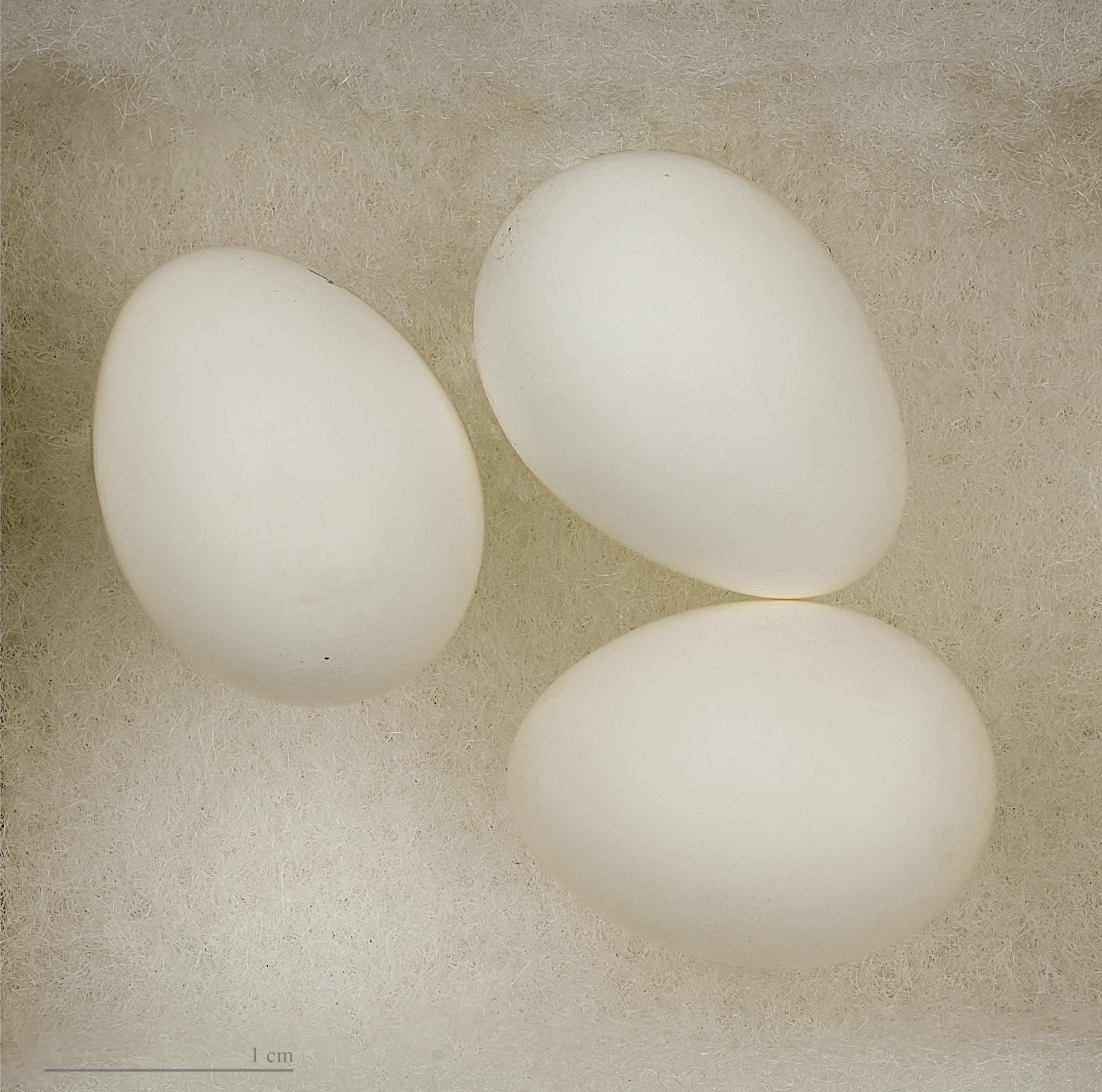 Egg of Red-breasted Swallow. Collection of Jacques Perrin de Brichambaut.